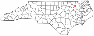 Category:North Carolina Dot Maps